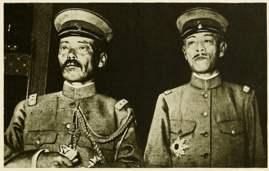 “The leaders of the Japanese Forces in Siberia, General Kikuzo Otani and Lieut.-General Mitsuya Yuhi” (Mitsue Yui)- from the book Fighting America's fight.